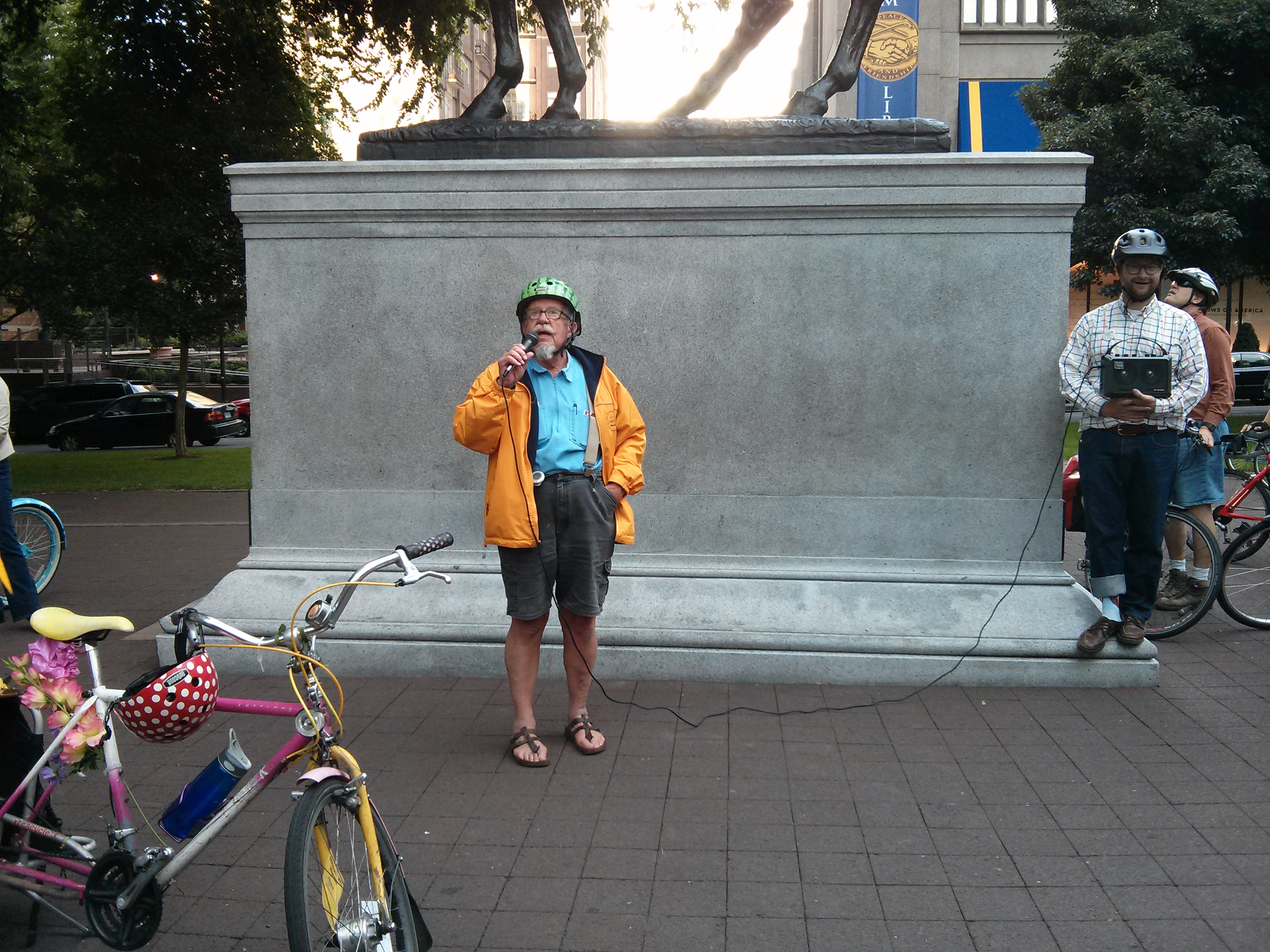 Bud Clark and the Upward Look of Recollection